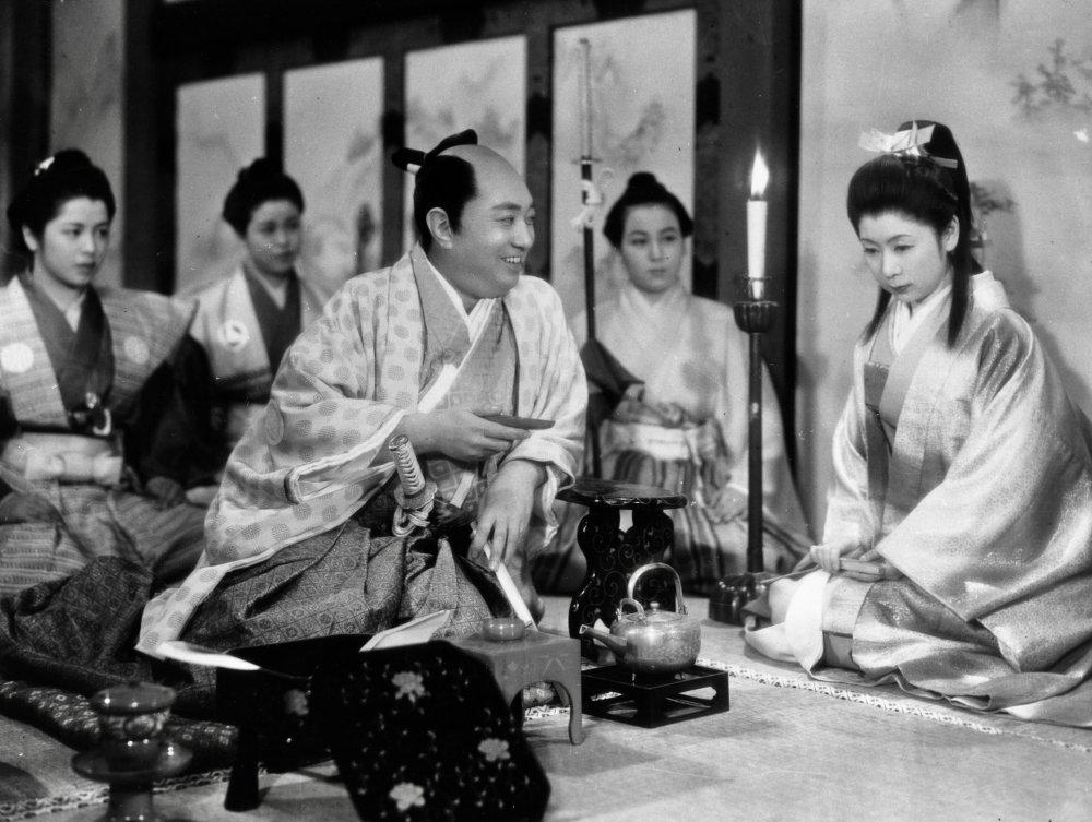 Screenshot from The Life of Oharu, 1952 film. Oharu and fictional daimyo Lord Harutaka Matsudaira (Toshiaki Konoe).